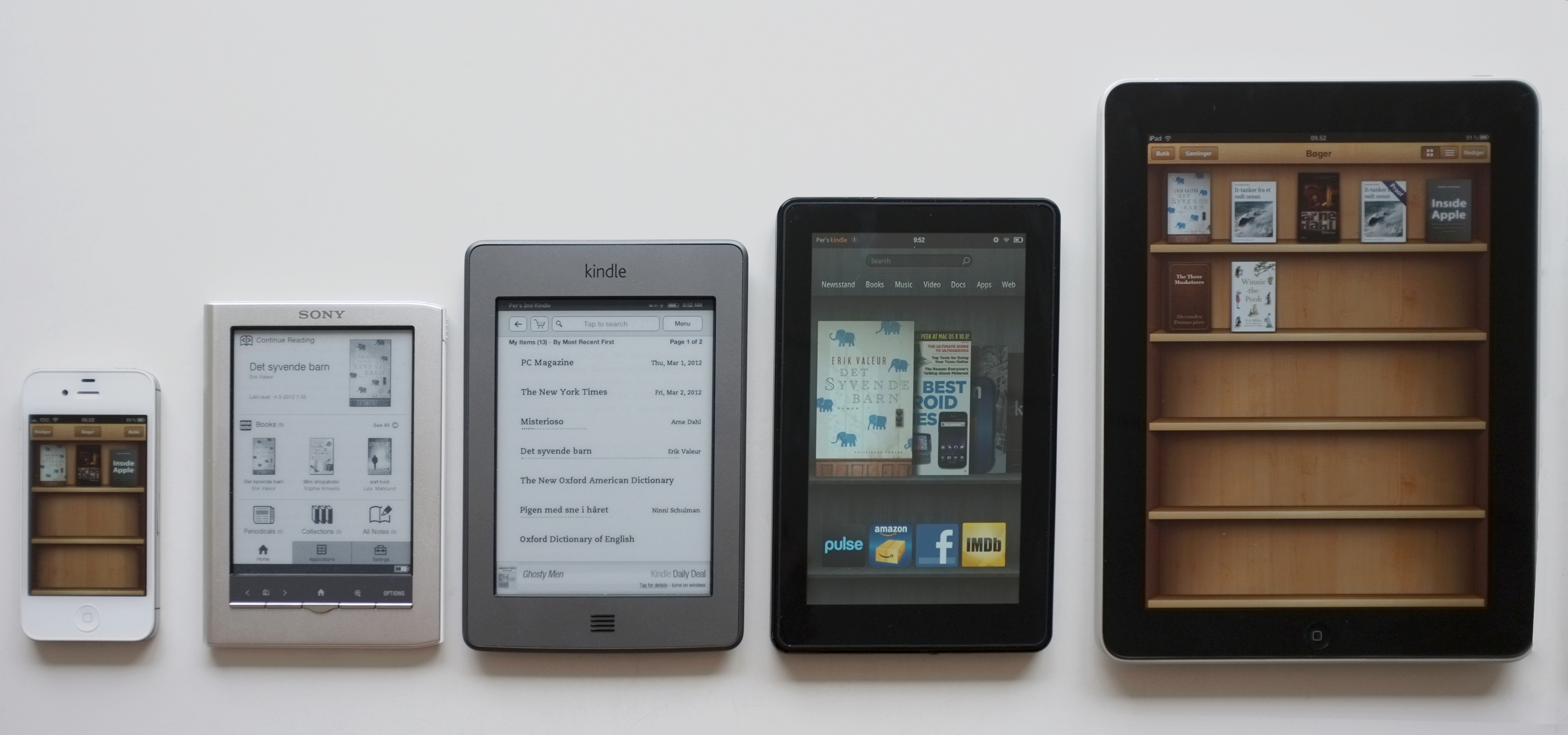 eBooks can now be read on a large variety of devicesDansk: E-bøger kan nu læses på en lang række forskellige enheder